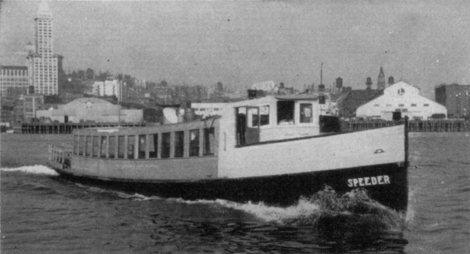 Motor vessel Speeder, ex Bainbridge, circa 1942 following reconstruction of superstructure.